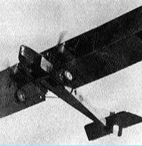 French bomber aircraft. Twin engines, 250 hp each